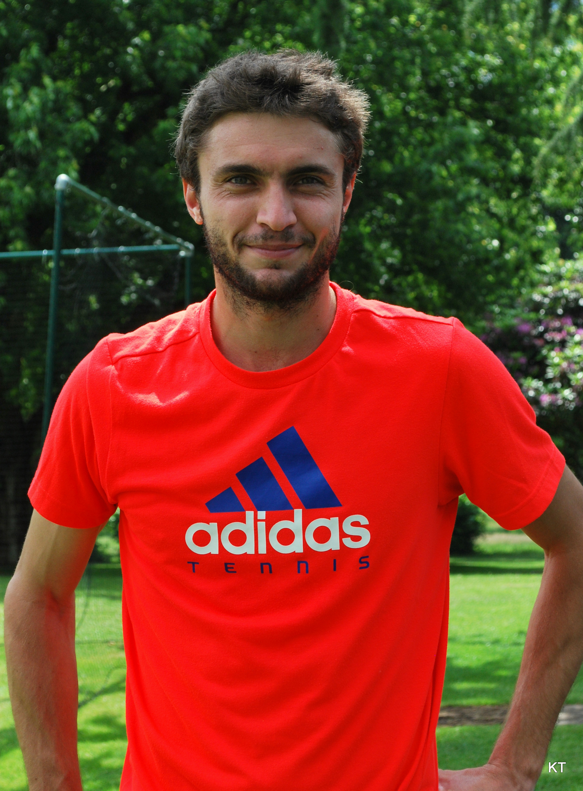 The Boodles, Stoke Park 2012.